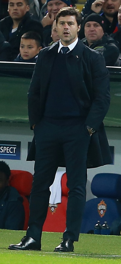 Mauricio Pochettino coaching Tottenham Hotspur FC in a game against PFC CSKA Moscow.